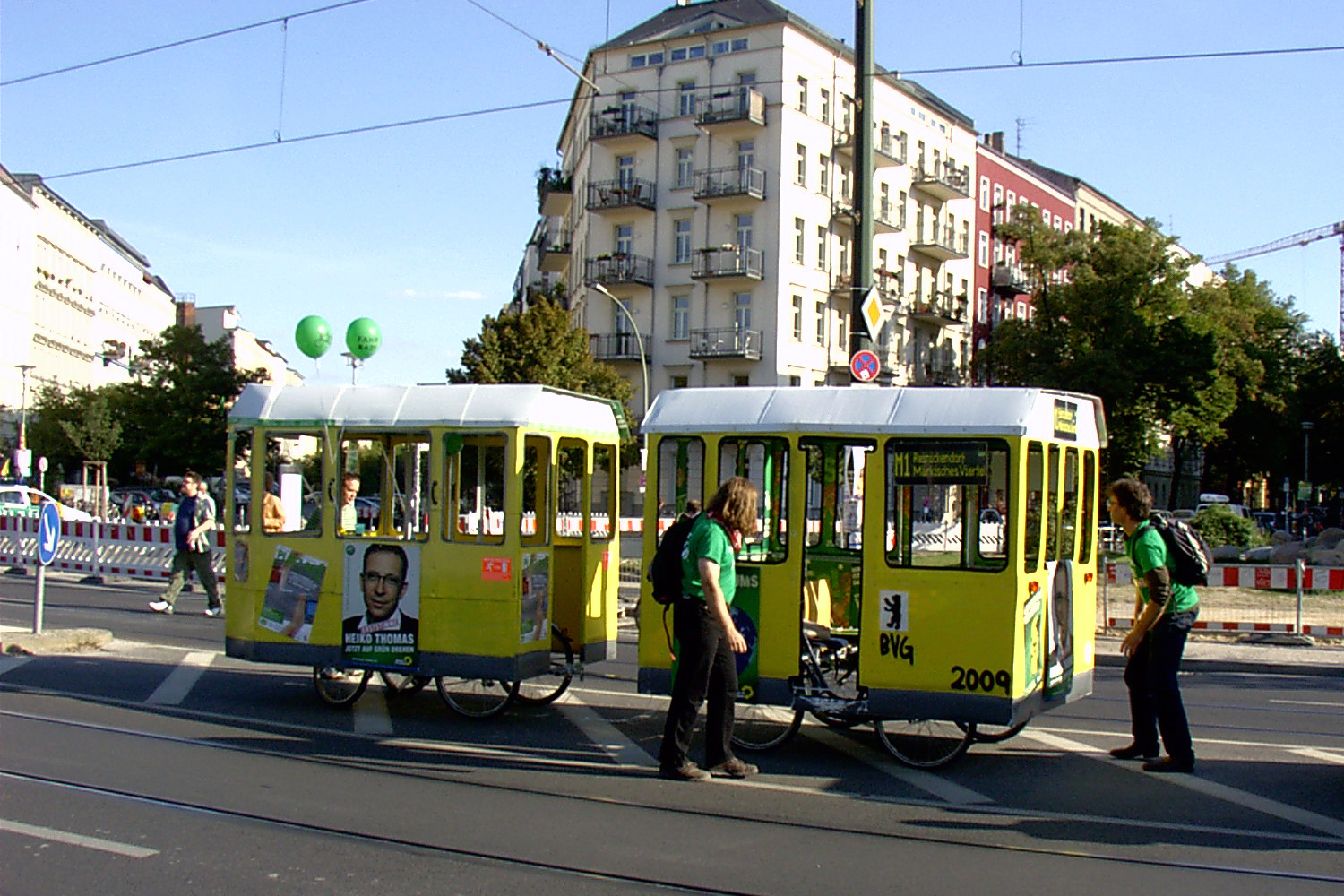 Model-Tram at Bernauer Straße in Berlin-Mitte